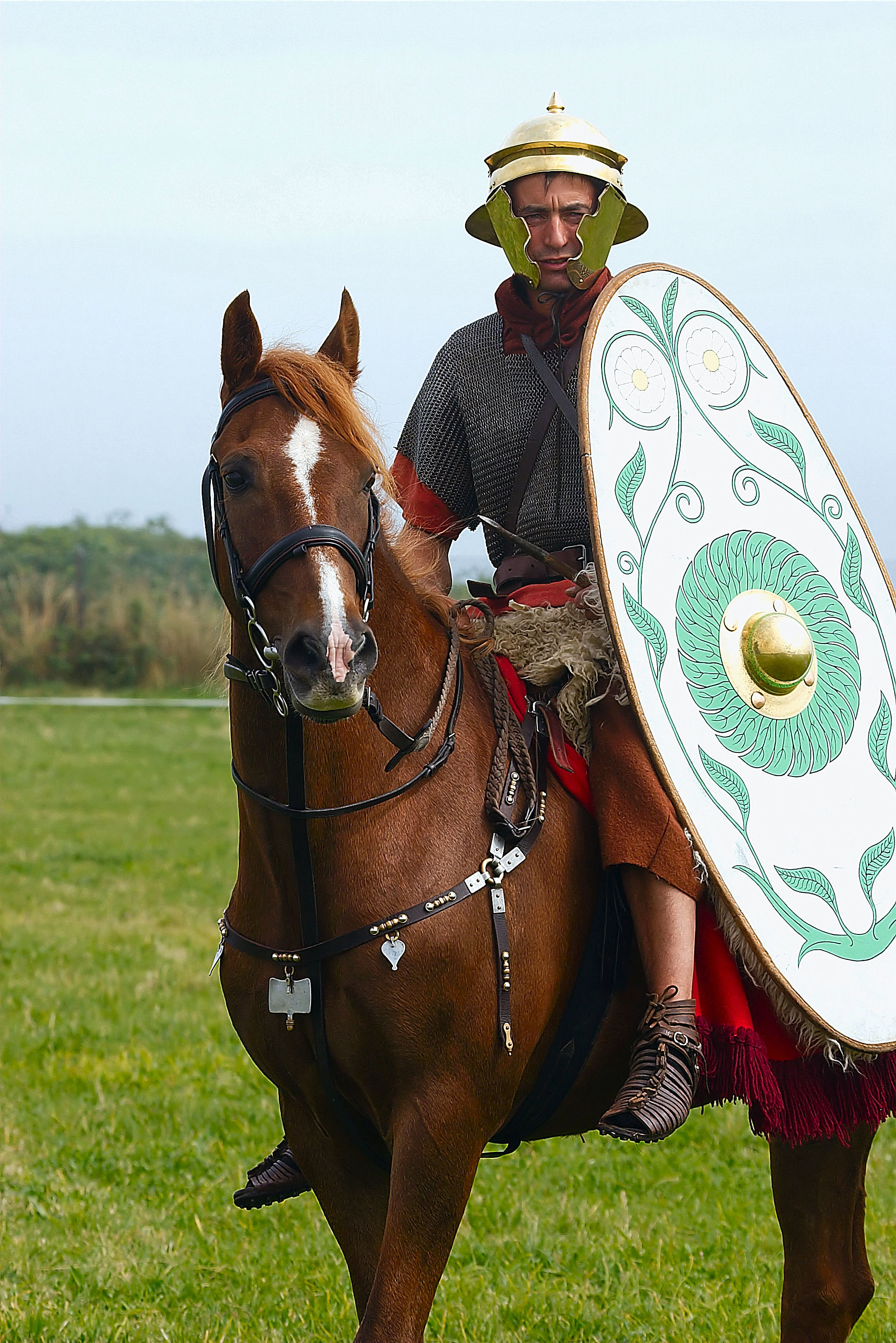 Image taken at the display of Roman Army Tactics Scarborough Castle UK Aug-07